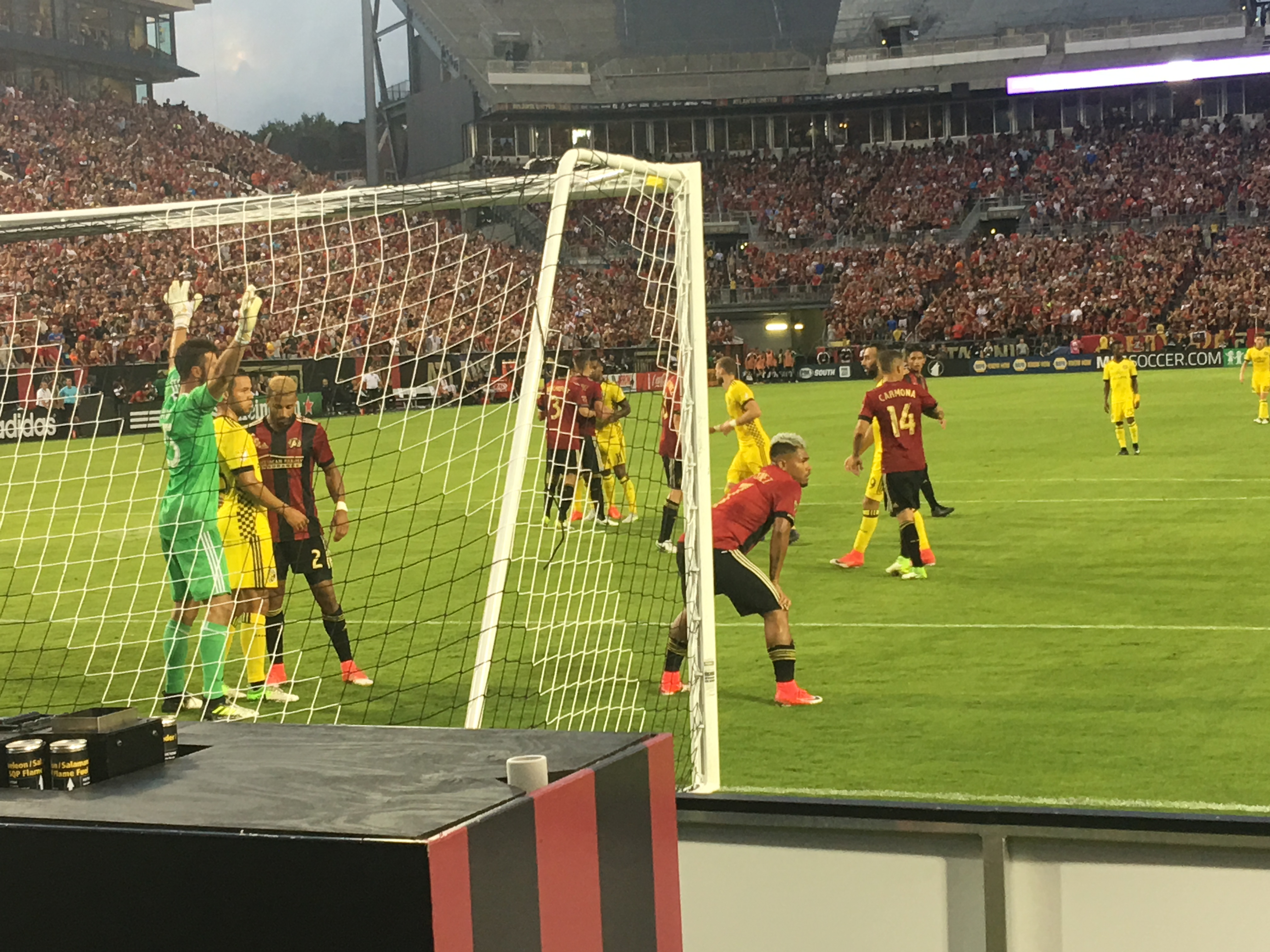 2017-06-17 - Atlanta United vs Columbus Crew